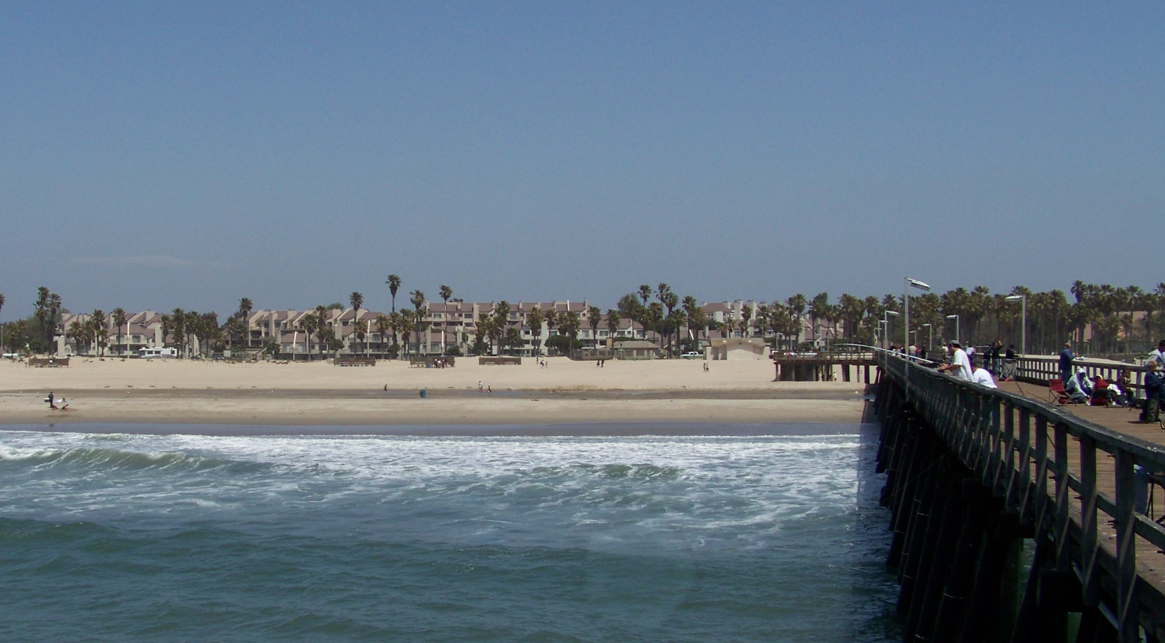 wooden bridge over the sea, in Port Hueneme, Oxnard, California, USA.